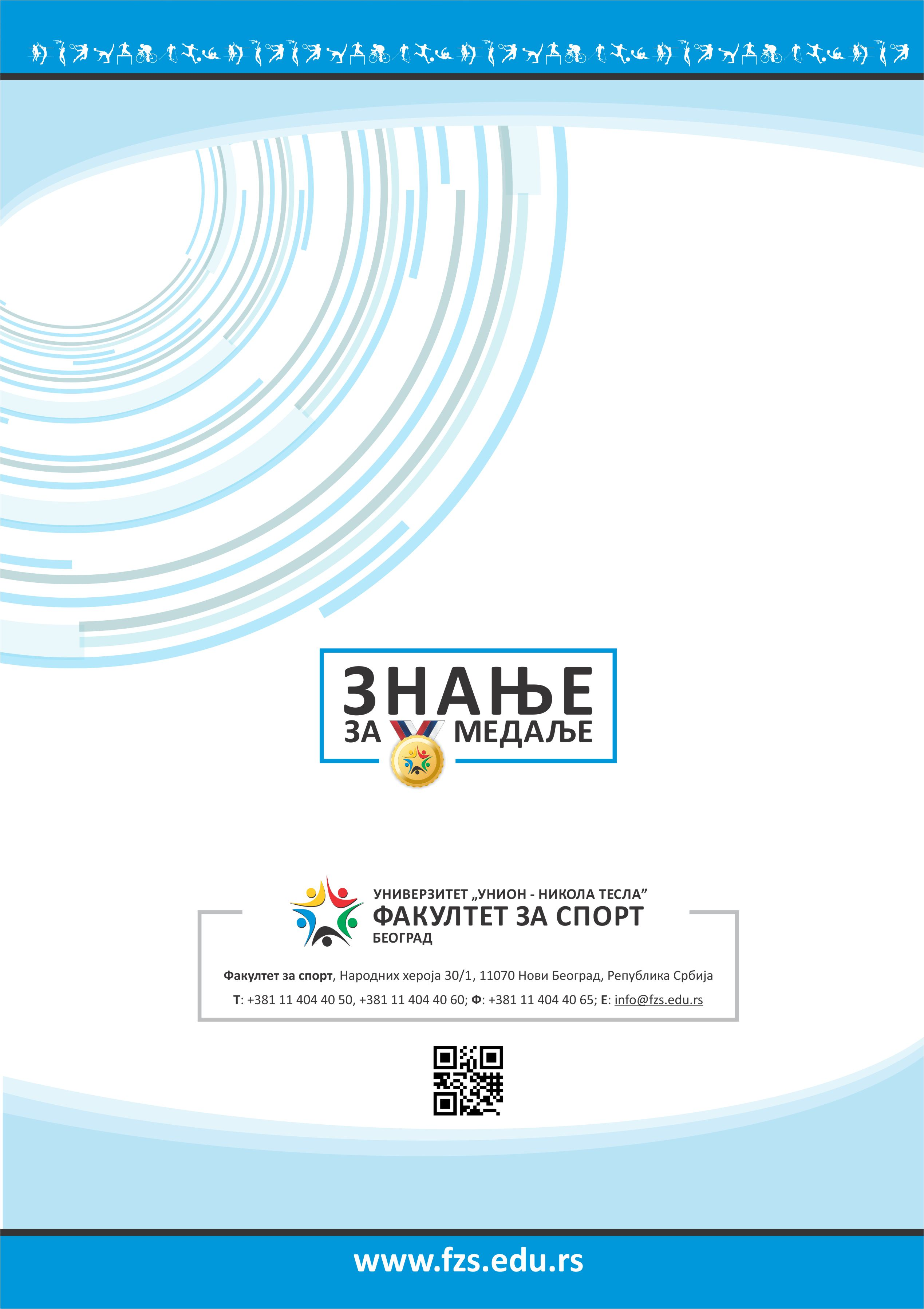 Serbian scientific journal Sport i biznis, last page, Faculty of Sports, University Union - Nikola Tesla, Belgrade, Serbia